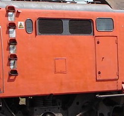 Hatch door on right side of Class 17E (Class 6E1 Series 8) no. E1913Location: Capital Park, Pretoria, GautengReclassification: Modified and reclassified from Class 6E1 Series 8Rebuilding: E1913 re-entered service in 2007 after being rebuilt to Class 18E 18-340